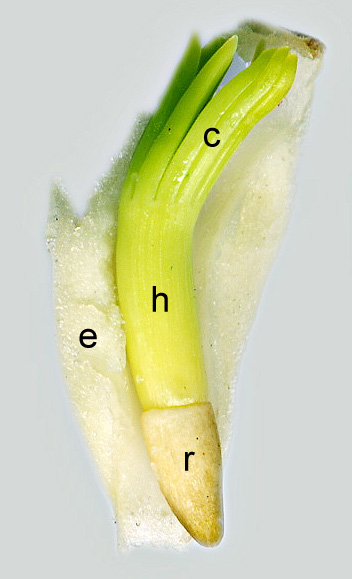 Cedrus embryo (photo: Mihailo Grbic)